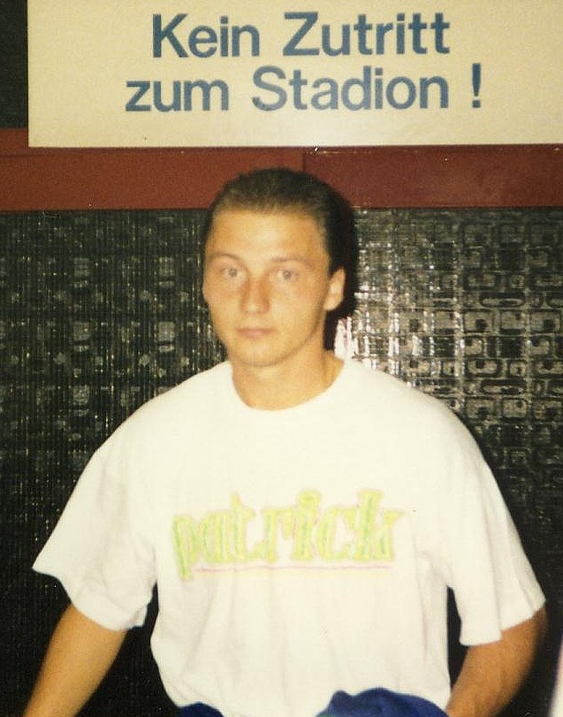 Dirk Zander as a player for FC St. Pauli